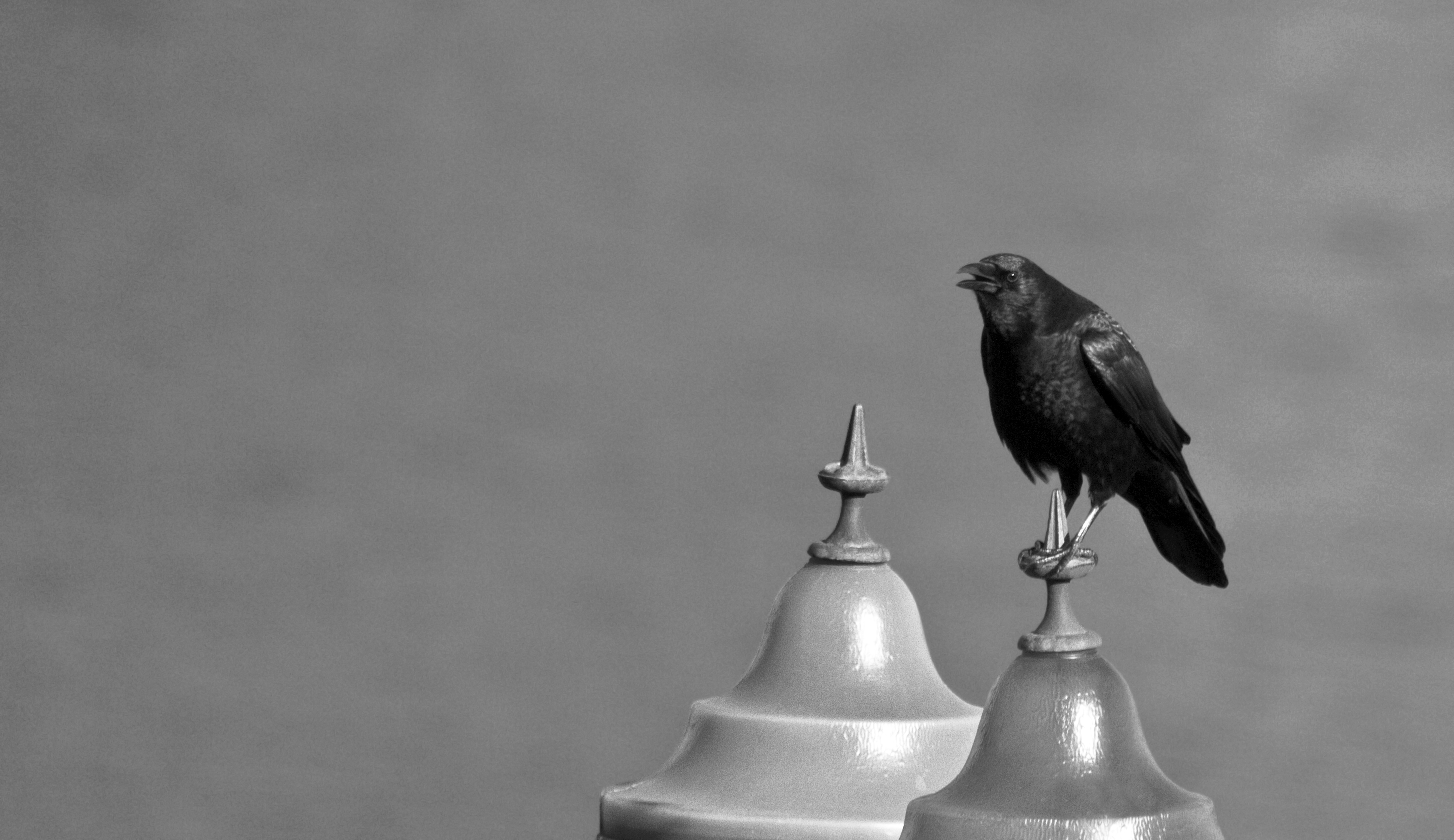 If he wins the debate his opponent will have to eat crow. Poor bird. Even in victory he still loses.